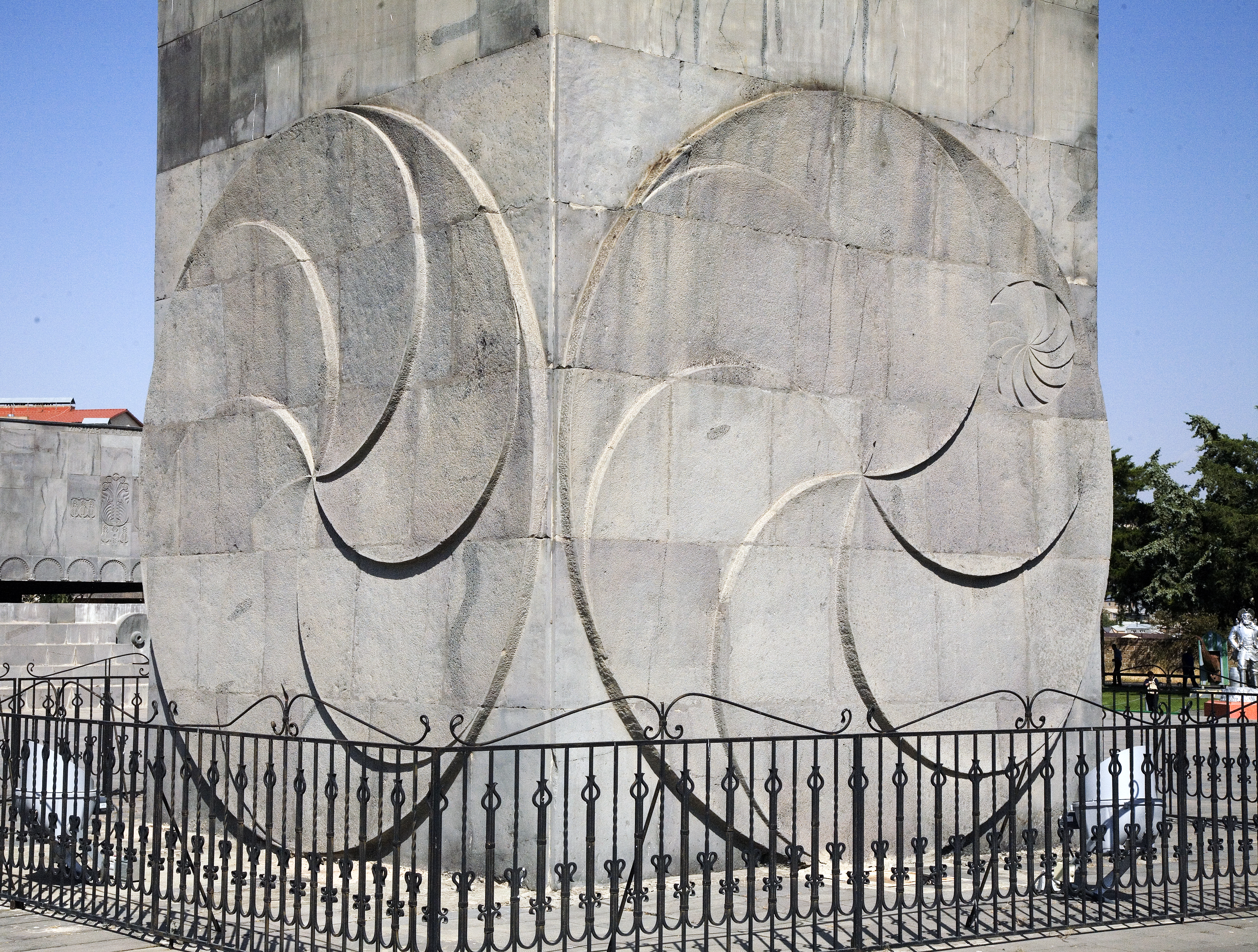 Revived Armenia Monument, Armenian Eternity signs on base (the right sign is recursive), Cascade of Yerevan, Armenia. On this 50 m long monument you can find 9 Armenian Eternity signs - 5 on the base and 4 on top.